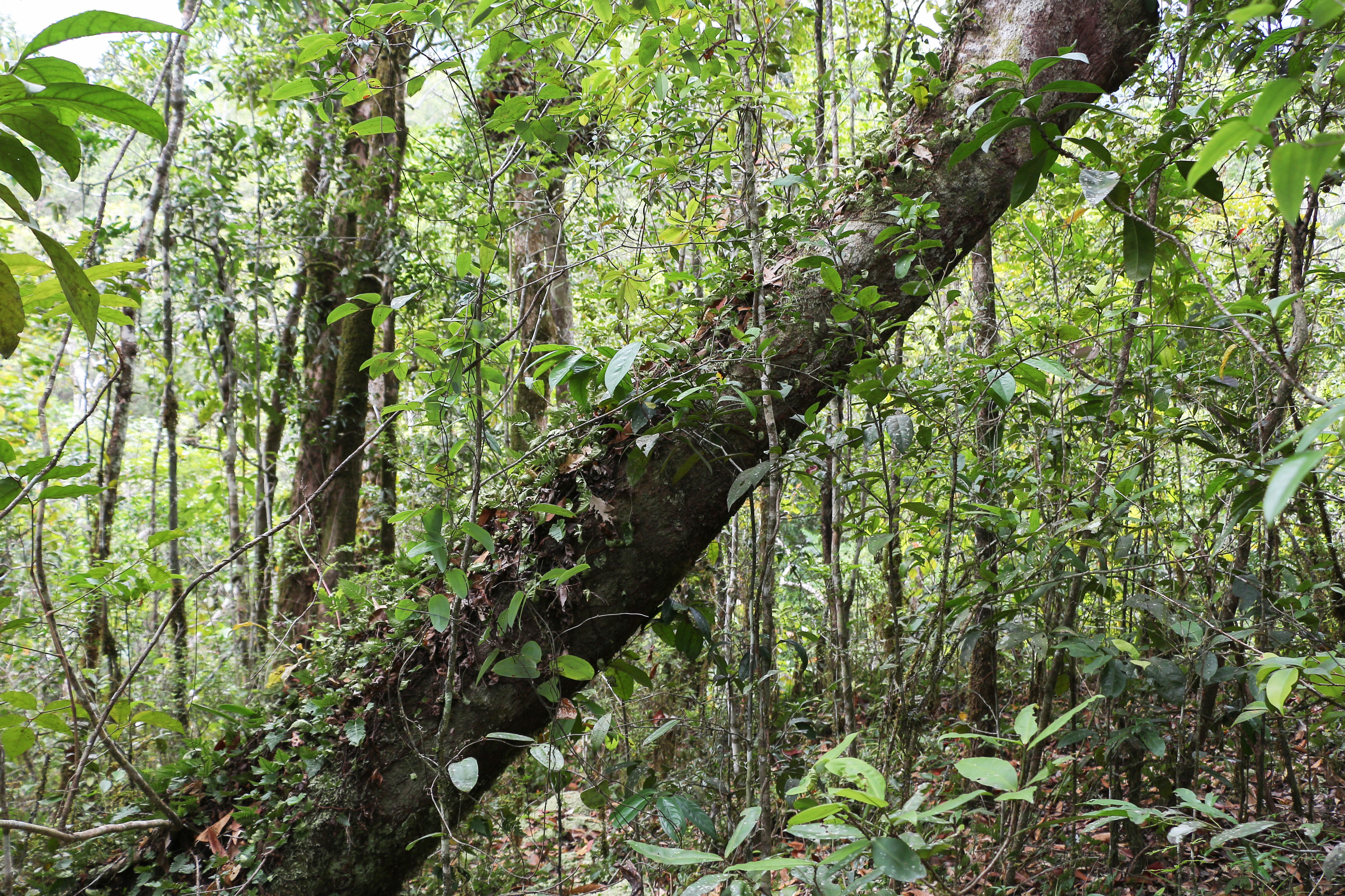 Rainforest in Mossman Gorge, Daintree National Park, Queensland, Australia